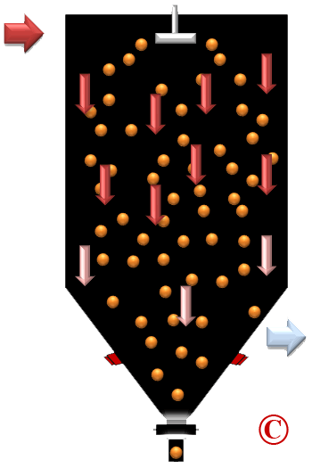 Spray Dryer Schematic Picture, it shows how an industrial spray dryer works.